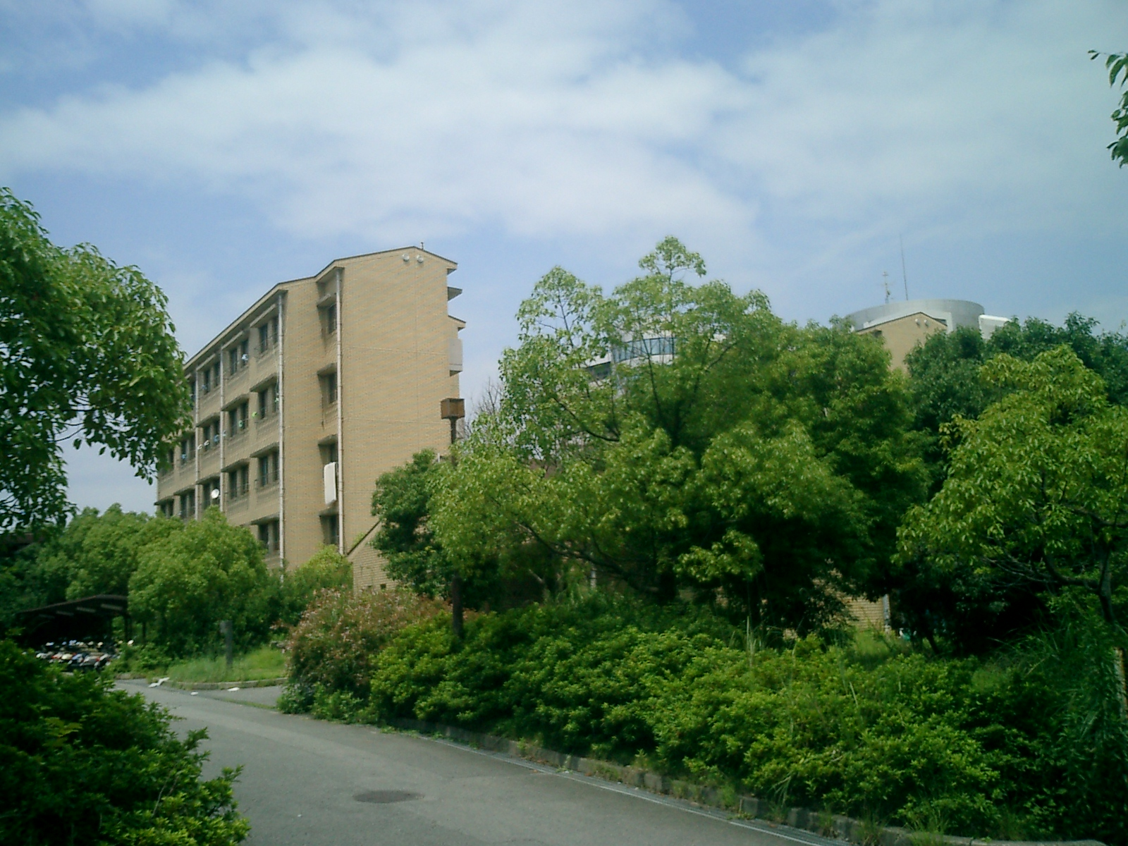 Dormitory of Wakayama University, JAPAN